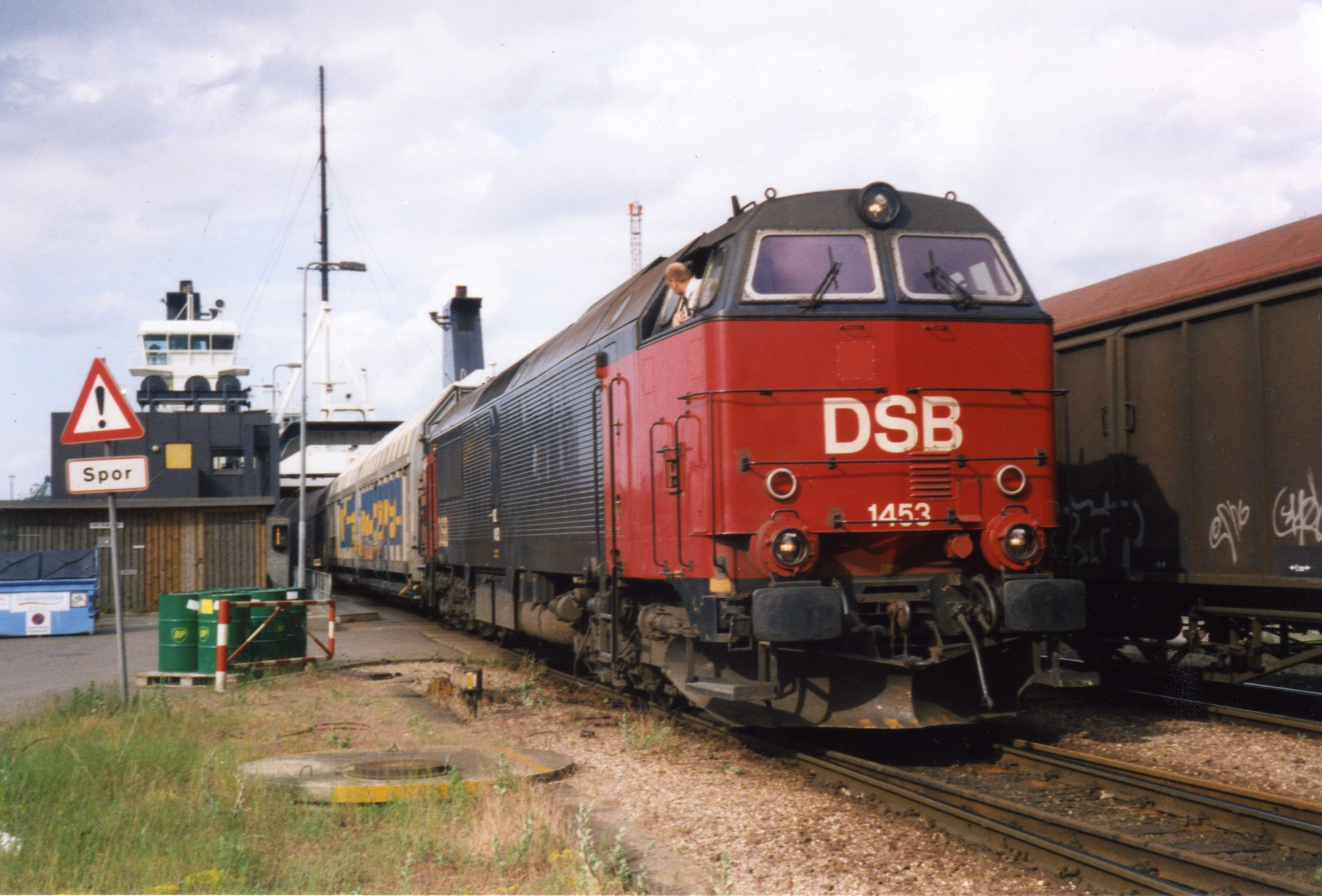 Switching with class MZ 1453 and MK 621 onboard trainferry Trekroner, Frihavnen, Copenhagen June 2000 - a few weeks before the Danlink-route ceased